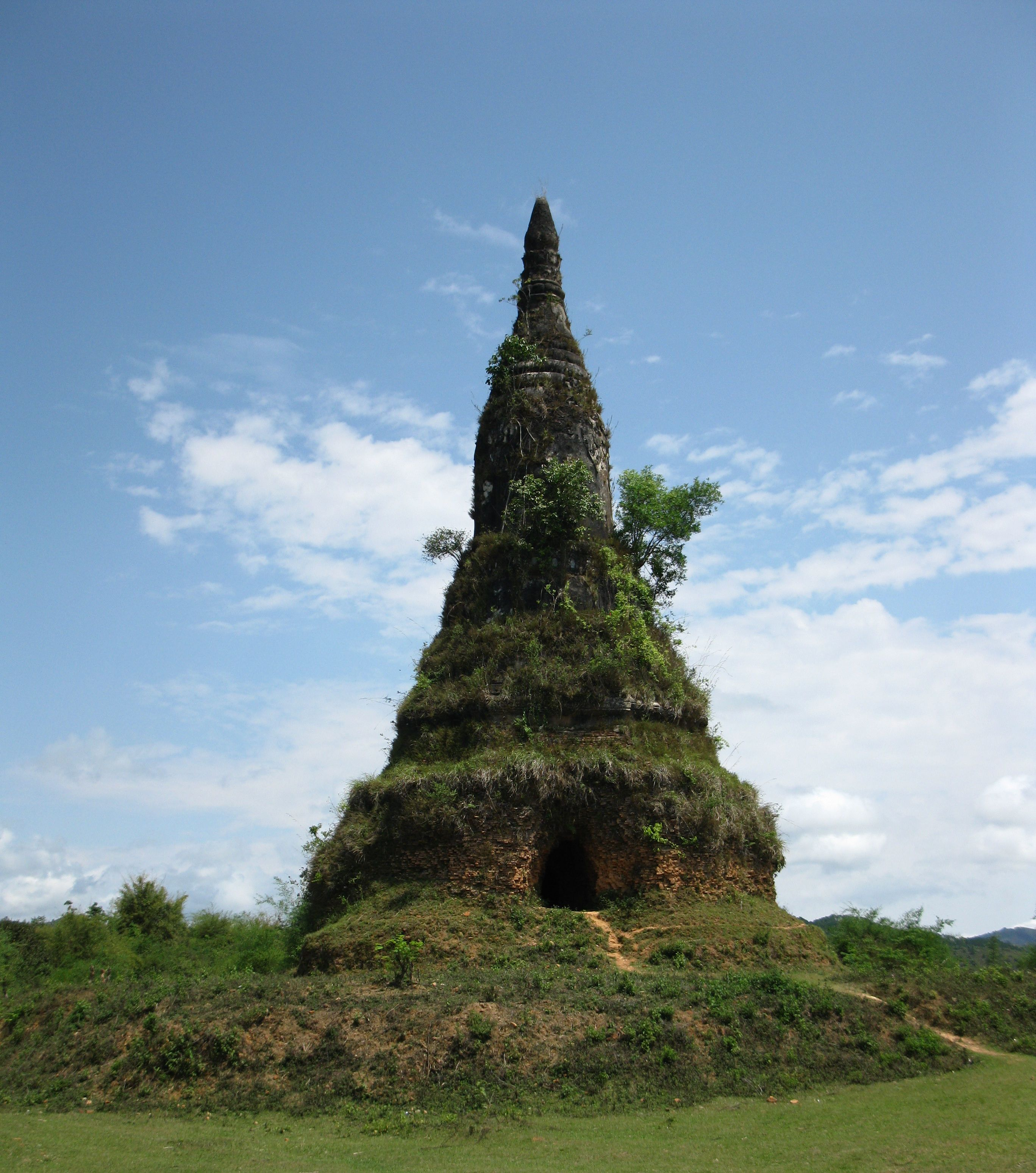 That Foun temple, Muang Khoun, Xieng Khouang Province, Laos